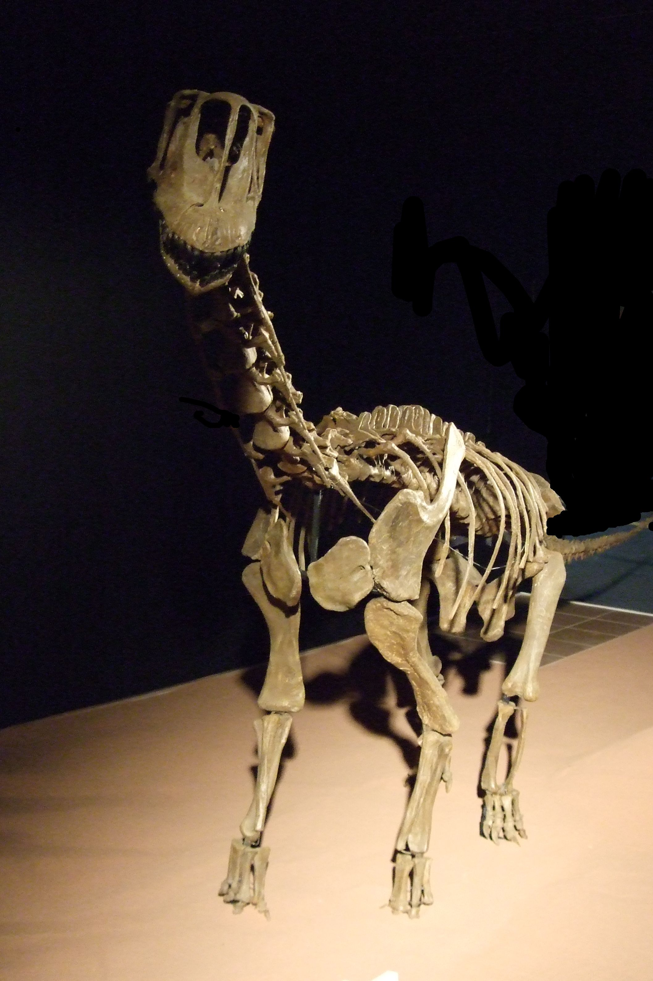 Europasaurus holgeri Sander et al. 2006, sceleton, reconstruction, Dinosaurierpark Münchehagen, Germany